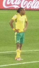 Siphiwe Tshabalala during the game between South Africa and Uruguay at FIFA World Cup 2010, 16 June 2010, Loftus Versfeld Stadium, Pretoria